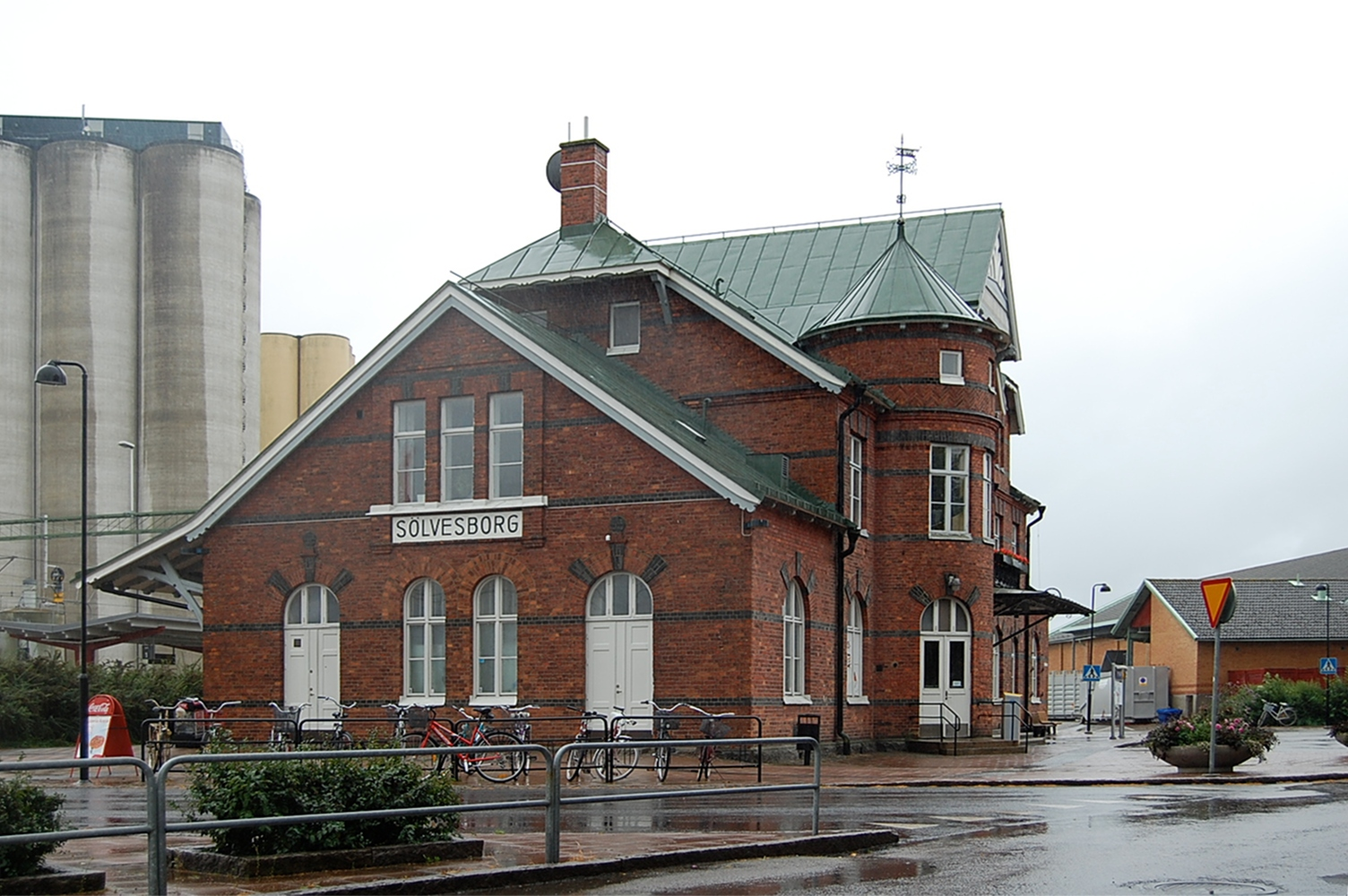 The station of Sölvesborg, Sweden